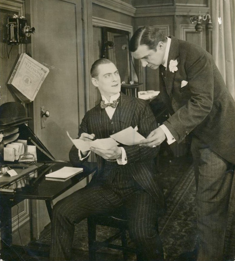 Lionel in a very rare still from the silent film "Wildfire" in 1915